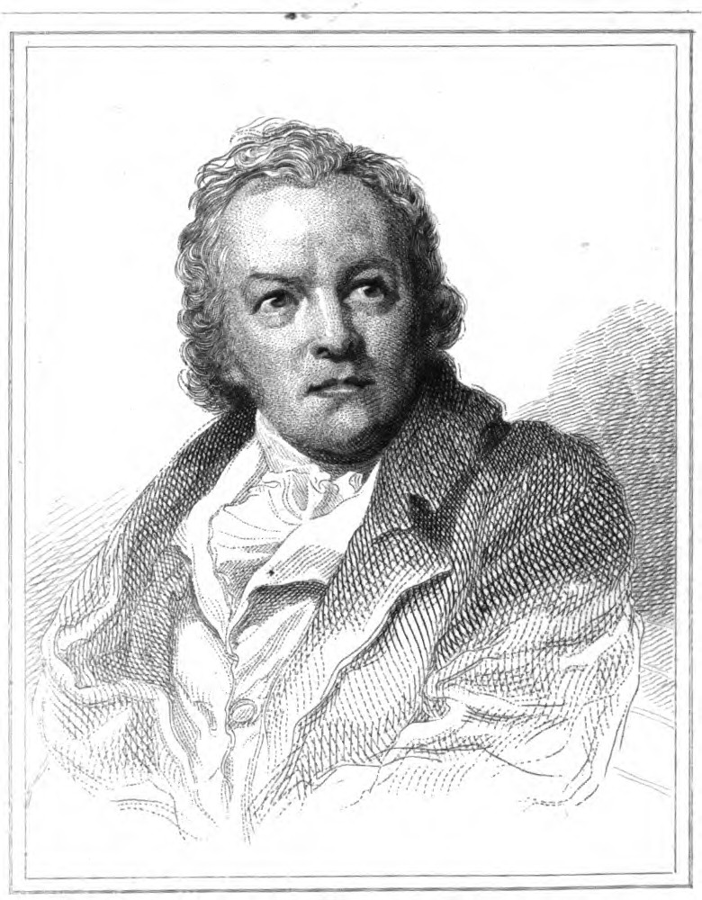 William Blake's portrait engraved by W. C. Edwards The Lives of the Most Eminent British Painters, Sculptors, and ..., Volume 2 By Allan Cunningham